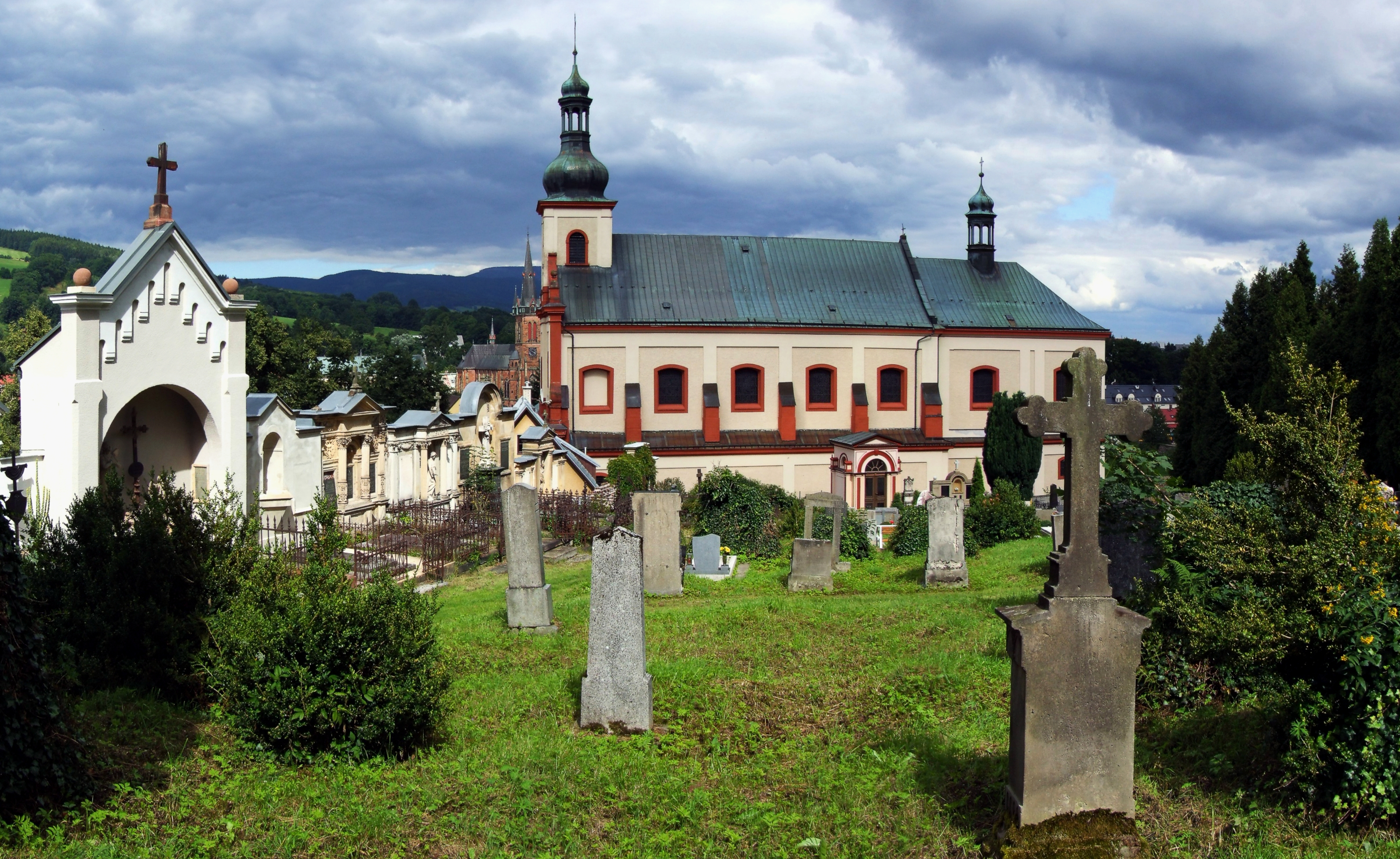 Vrchlabi (Hohenelbe) - monastery and church of St. Augustin - view from old cemetery